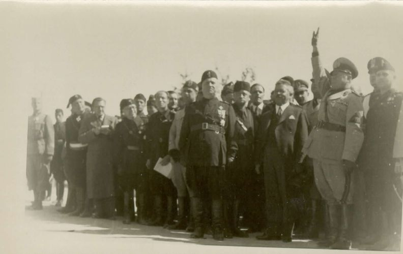 Marko Natlačen with italian soldiers